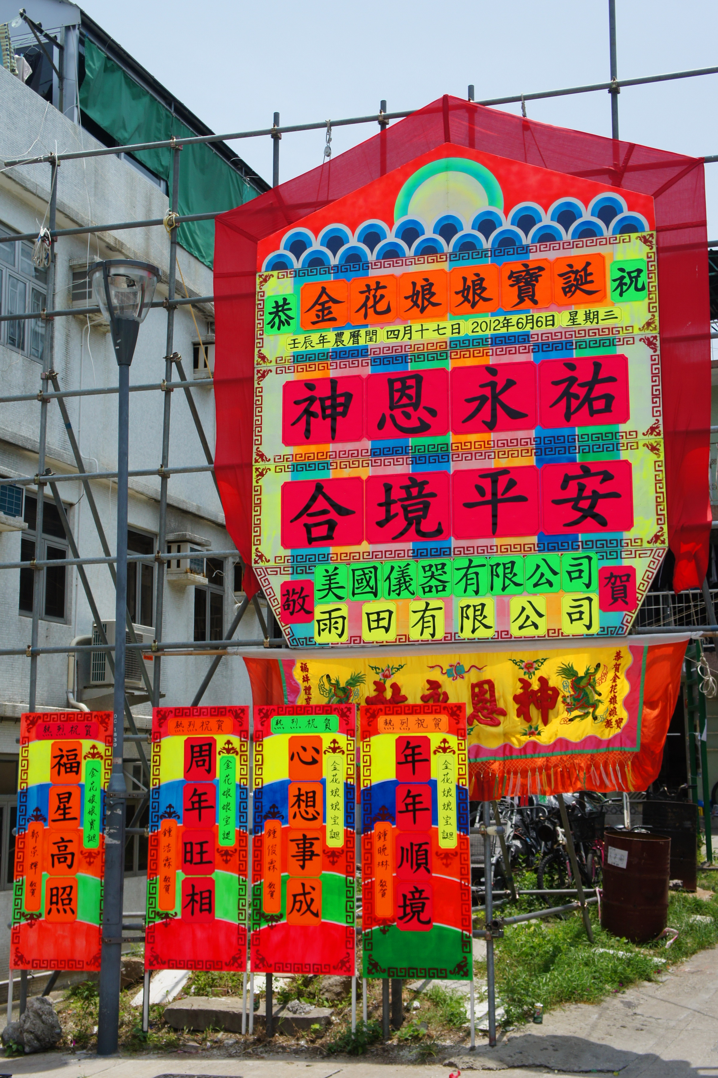 Traditional Floral Deco, Kam Fa Festival (the 17th day of the 4th month of the lunar calendar), Peng Chau, Hong Kong.